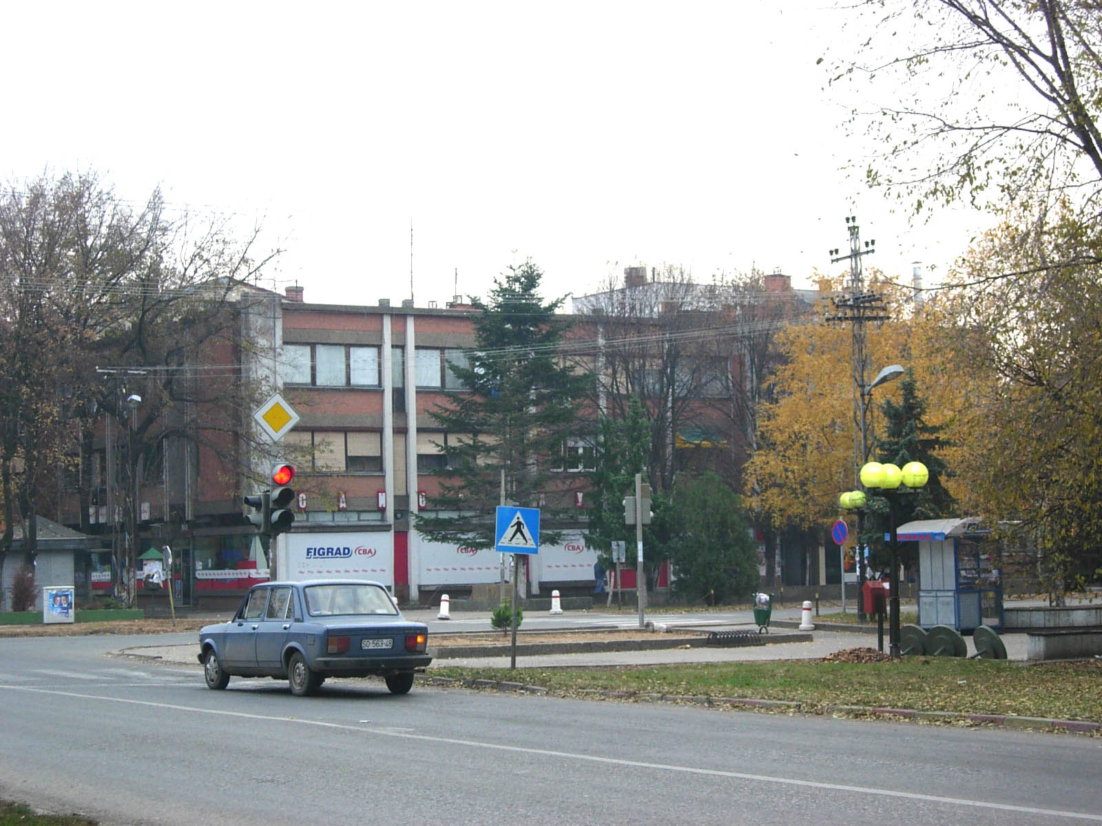 Building in the centre of Crvenka. The razed Evangelical church stood here until the end of the 1940s.